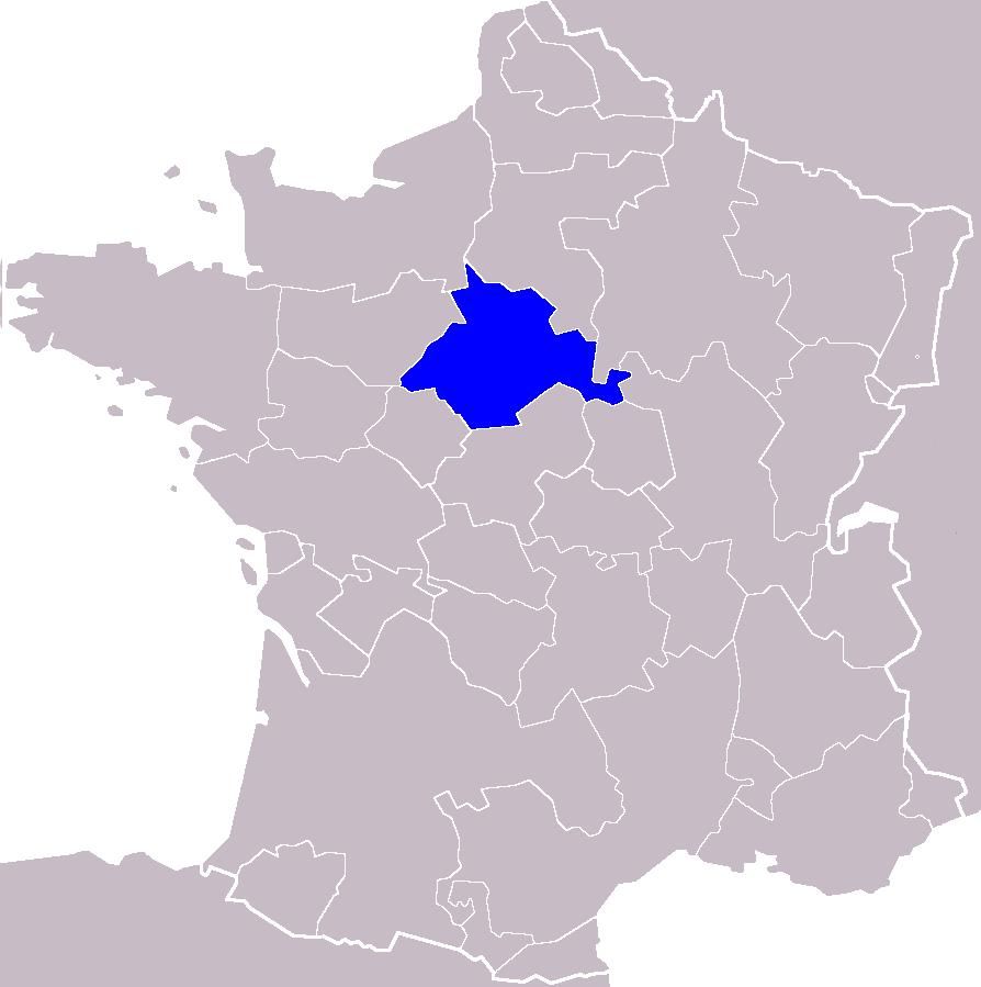 Map showing the location of the province of Orléanais in France.